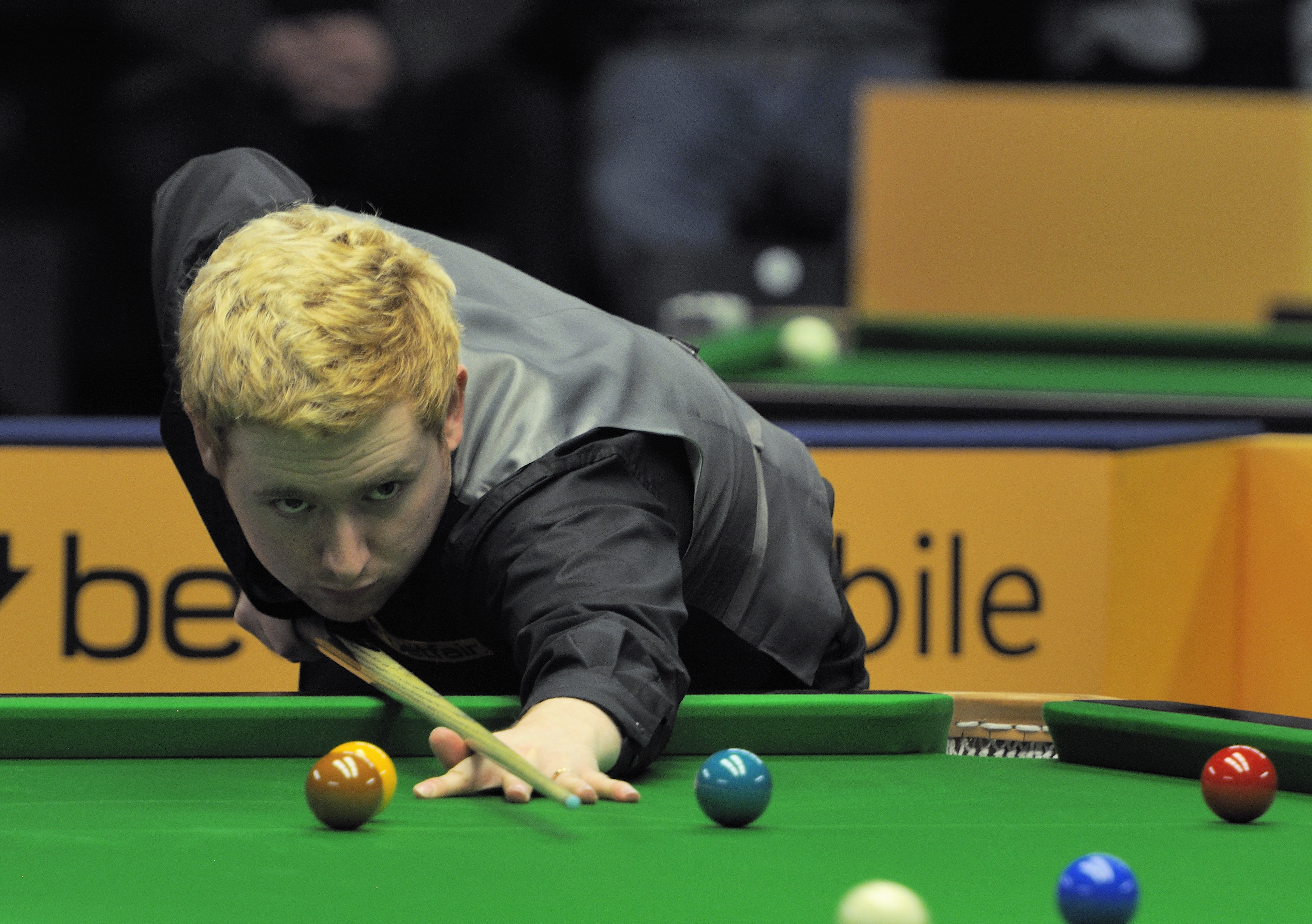 Picture taken in Berlin during the Snooker German Masters in 2013. Ben Woollaston.